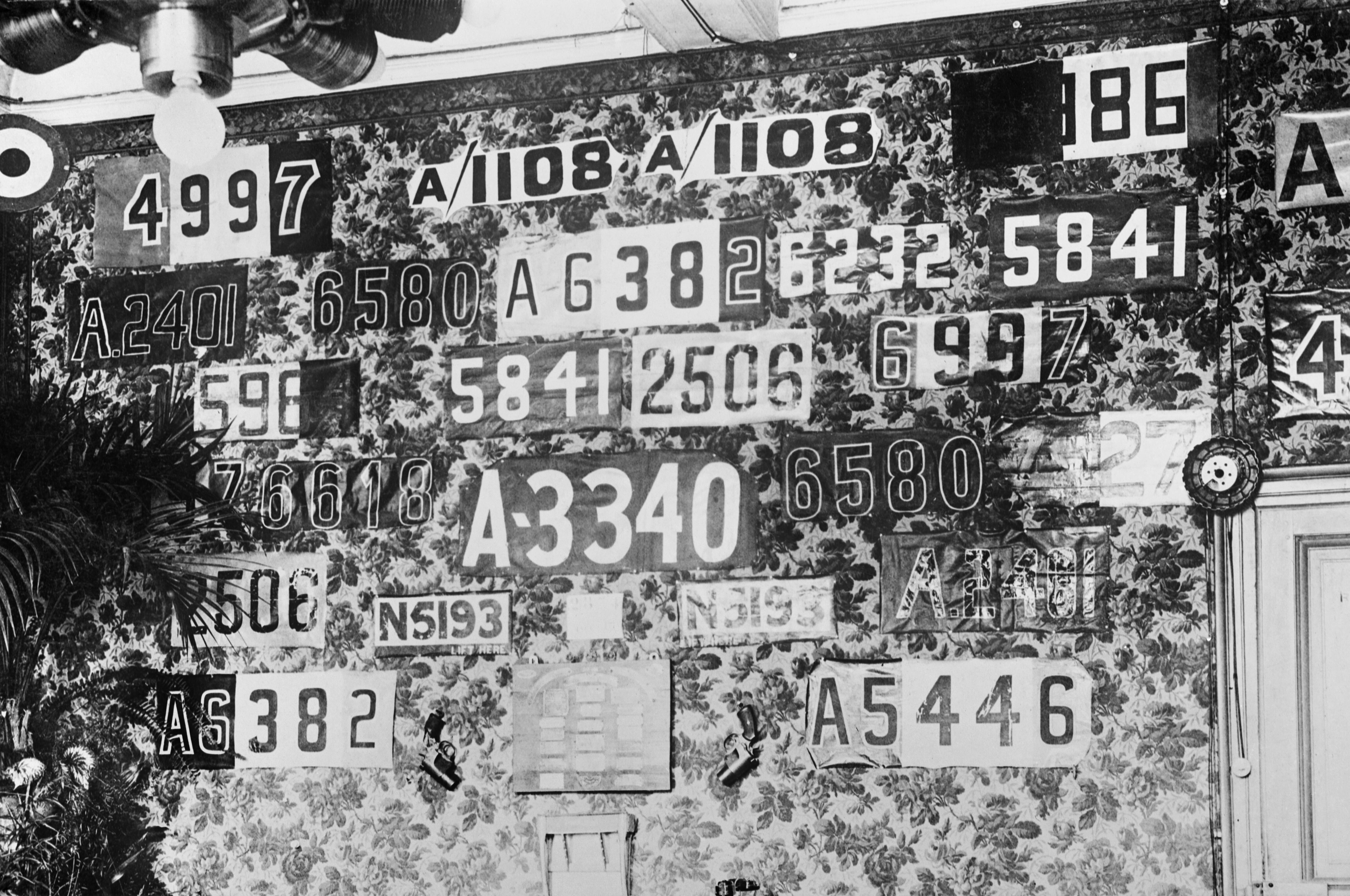 Geiser Theodore (mons) Collection W. F. May 1917. The room of Captain Baron von Richthofen with the number strips of the aeroplanes of opponents shot down by him.